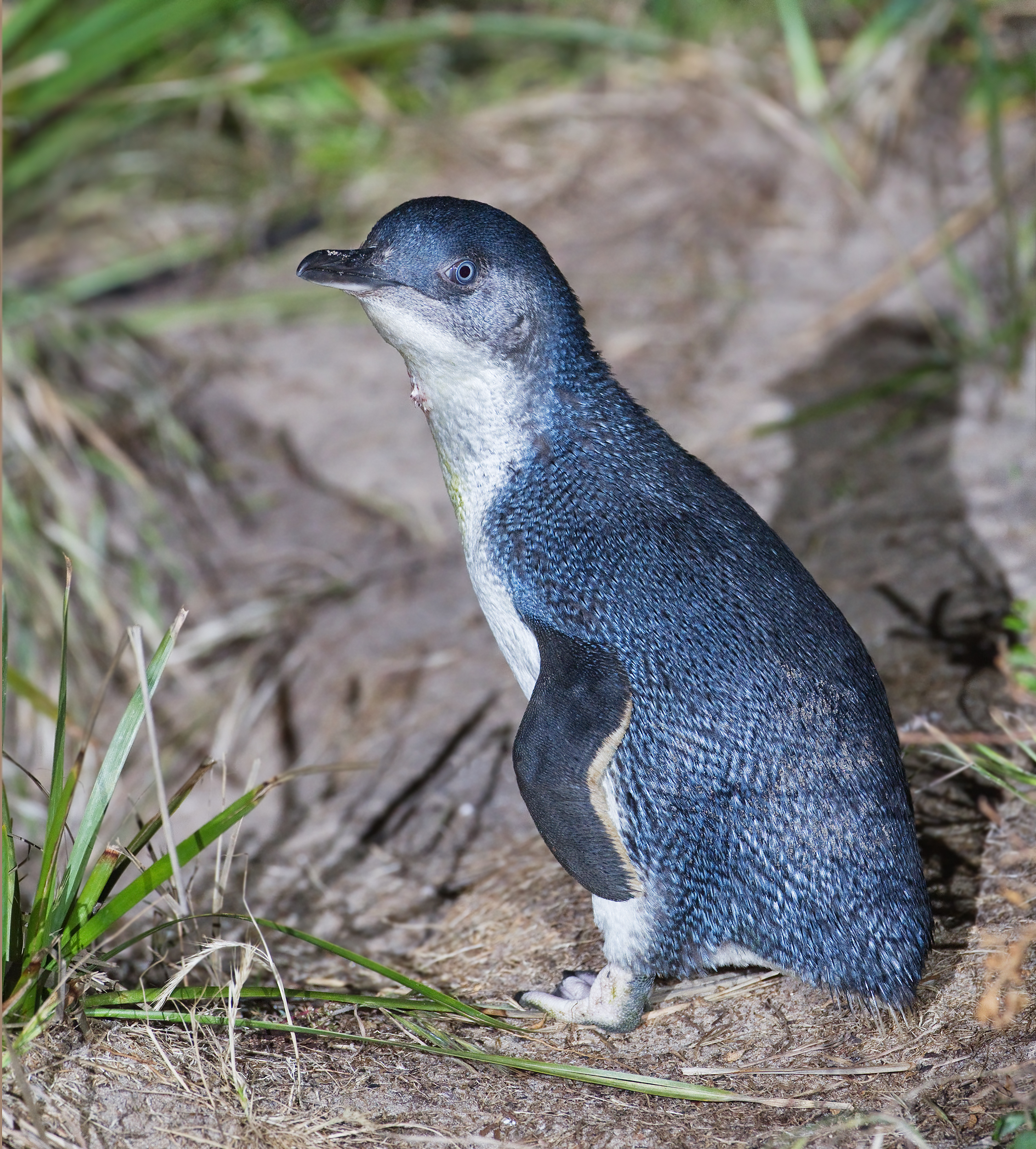 Little Penguin (Eudyptula minor), Bruny Island, Tasmania, Australia